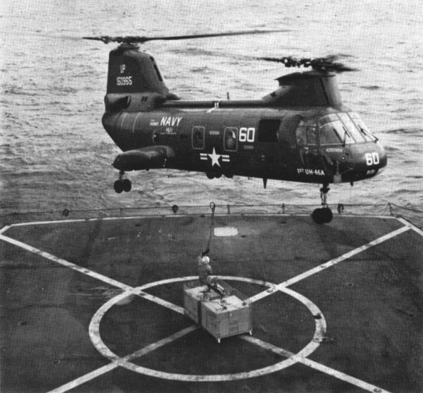 The first U.S. Navy Boeing-Vertol UH-46A Sea Knight (BuNo 150965). It was assigned to Helicopter Combat Support Squadron 1 "Pacific Fleet Angels".